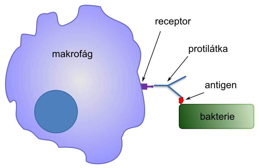 Action of opsonins